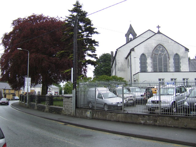 Holy Trinity church, Ratoath, County Meath, Ireland